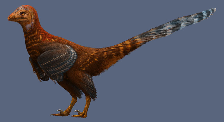 Life reconstruction of Jianianhualong tengi.